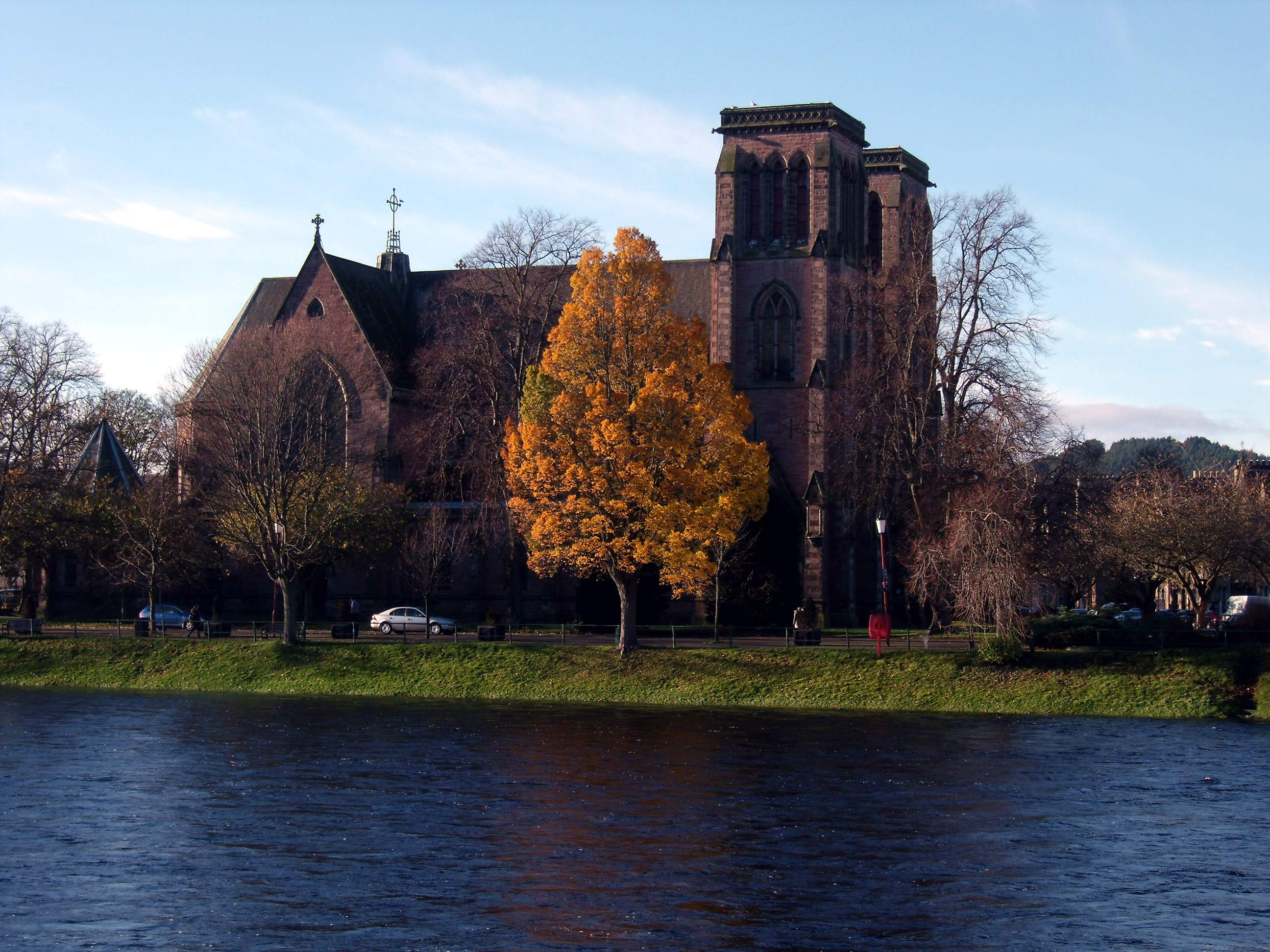 St Andrews Cathedral. A beautfiul structure, enhanced (rather than diminshed) by the absence of spires! The past few days have seen some bright sunshine during the day, despite a cold snap at night. Here are some views along the banks of the River Ness in Inverness, with the City and River looking good!